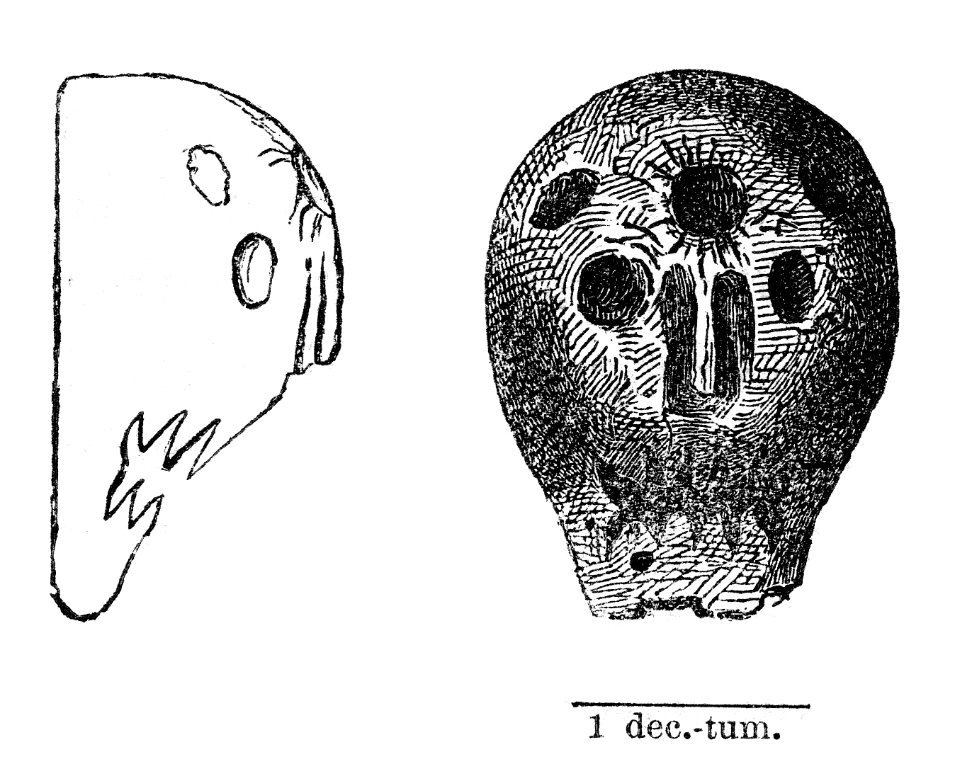 Illustration from the book Wärend och Wirdarne (1864) by Gunnar Olof Hyltén-Cavallius depicting an idol or fetisch made of animal bone. This fetisch once belonged to the troll woman or witch "Captain Elin", but was collected during witch trials, and was in the 1860's stored by the Göta Court of Appeal (Göta Hovrätt). Note that Hyltén-Cavallius thought that witches was descended from trolls, and that trolls was a people living in Scandinavia in ancient times.